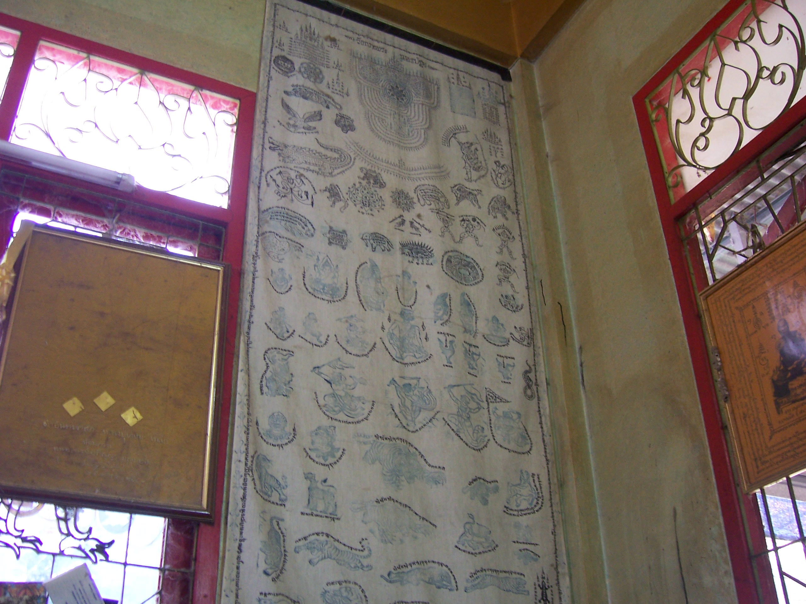 Photo of tattoo selections at Wat Bang Phra.